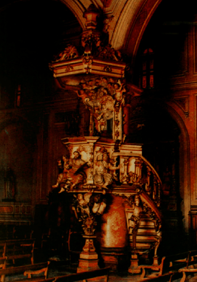 Púlpito